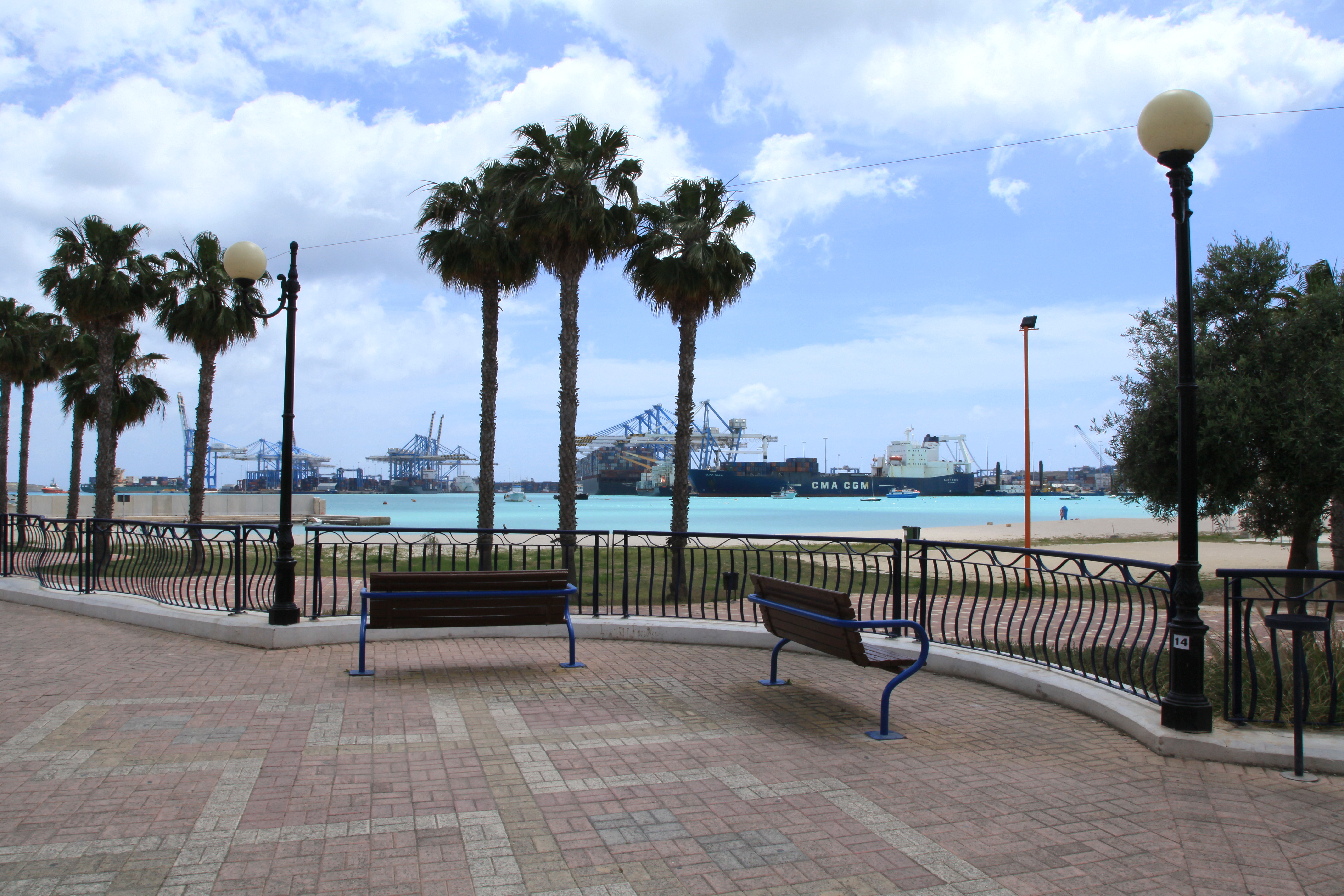 Pretty Bay and Ġnien Mons. Ġużeppi Minuti at Triq il-Bajja s-Sabiħa in Birżebbuġa, Malta